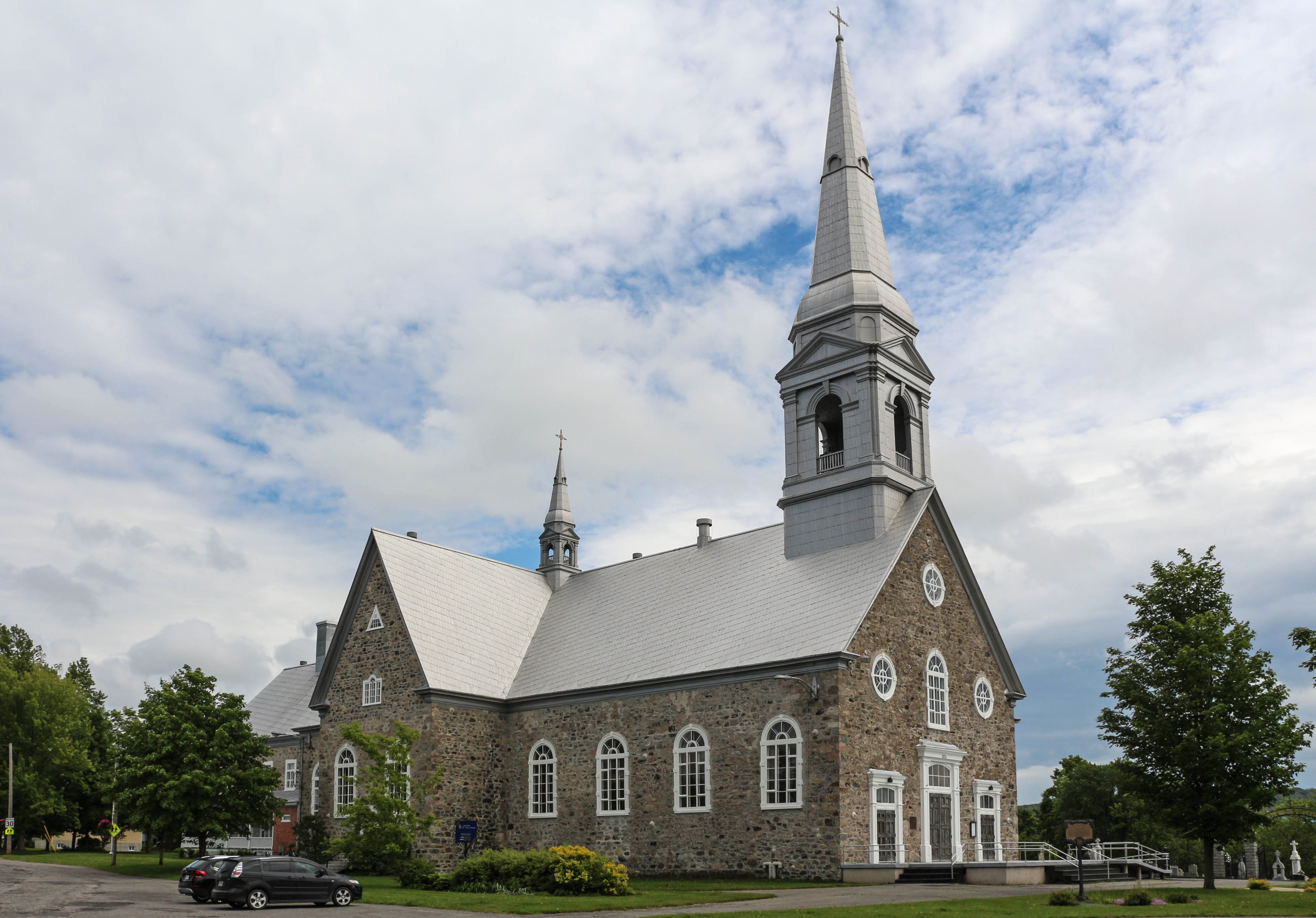 Sainte-Claire Church, Sainte-Claire, Quebec, Canada